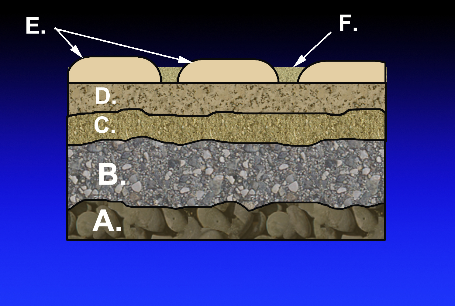 Diagram of the layers that make up a typical mortarless or "dry-laid" pavement. A. Subgrade, B. Subbase, C. Aggregate base course, D. Paver base, E. Pavers, F. Fine-grained sand